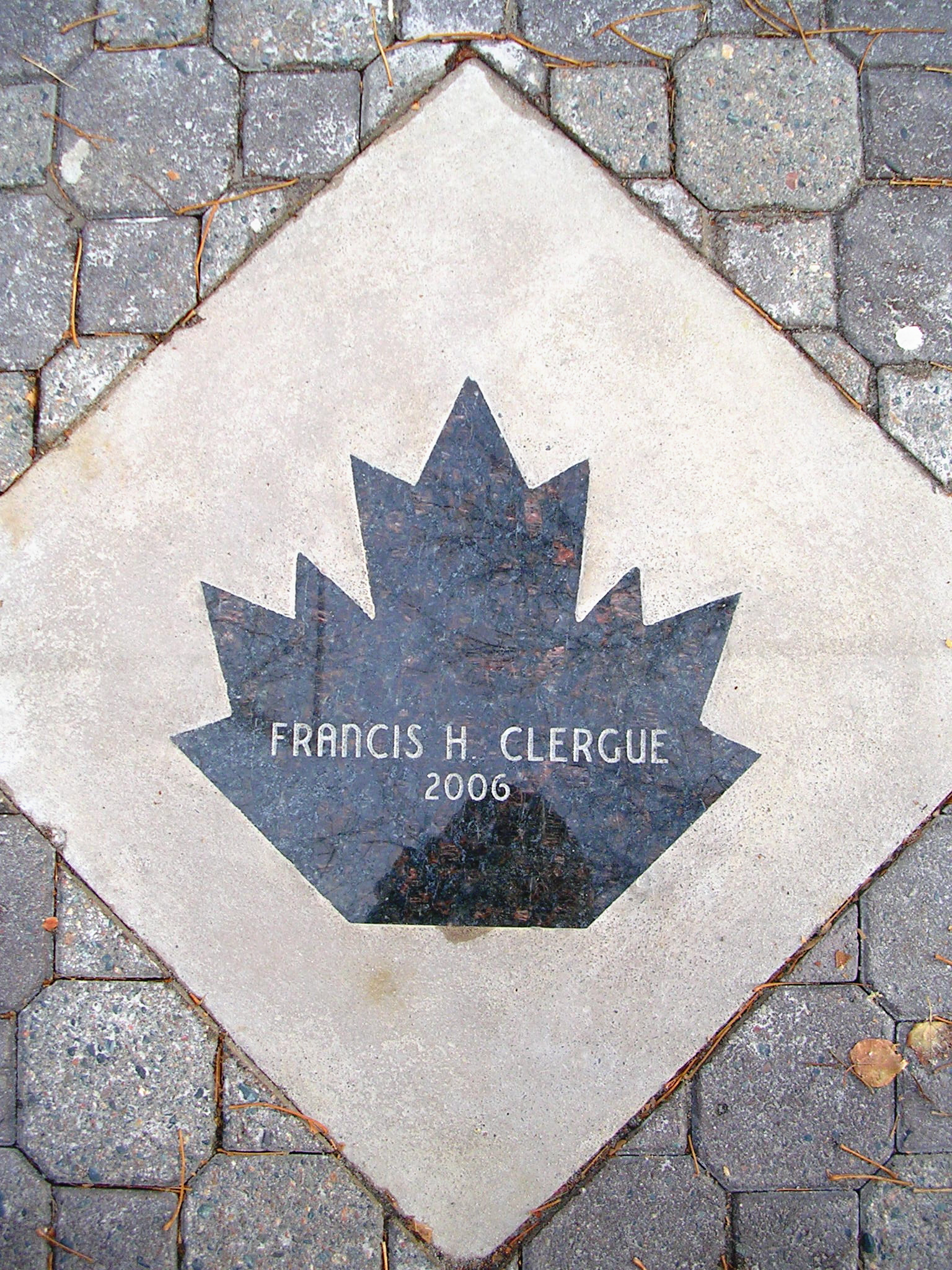 This plaque honouring Francis Clergue is an example of the markers that are part of the Sault Ste. Marie Walk of Fame, surrounding the Essar Centre.